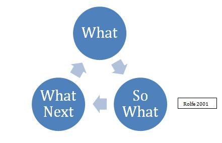 Steph's Rol Model